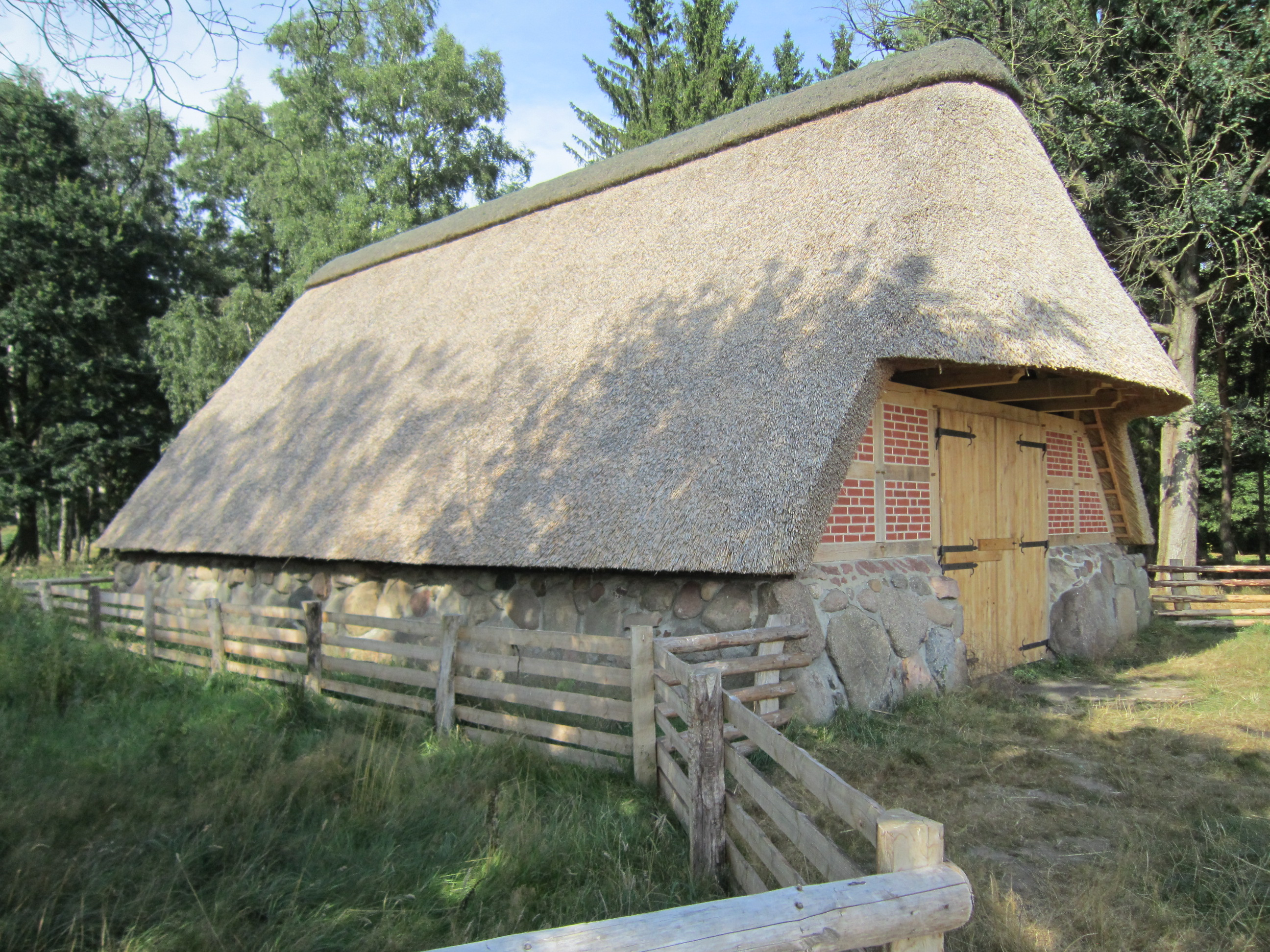 Reconstructed sheep barn at "Pestruper Gräberfeld" near Wildeshausen (Lower Saxony)